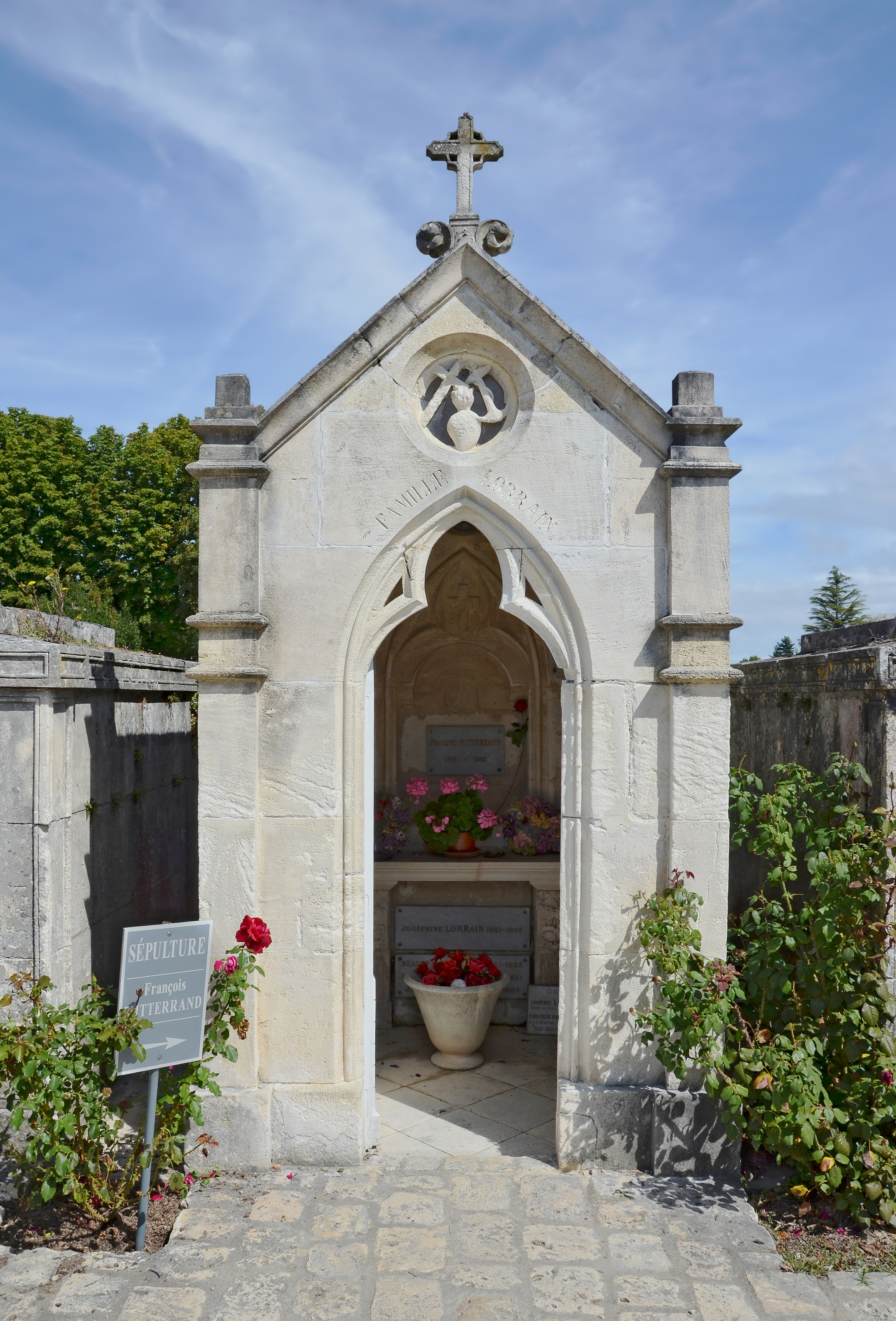 F. Mitterrand's burial place, Jarnac, Charente, France.